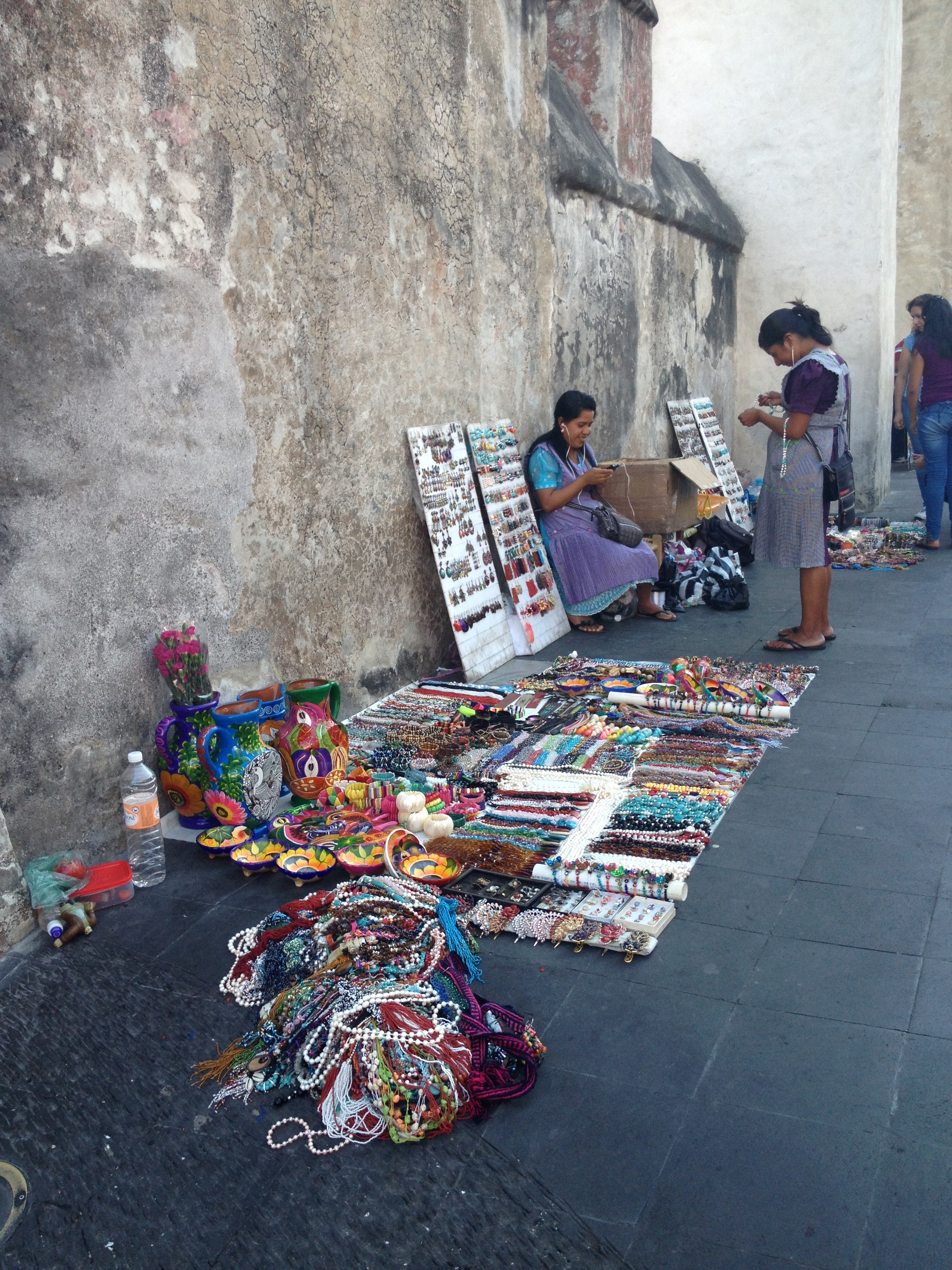 Two merchants sell bracelets outside the main Cathedral complex in Cuernavaca in the state of Morelos.